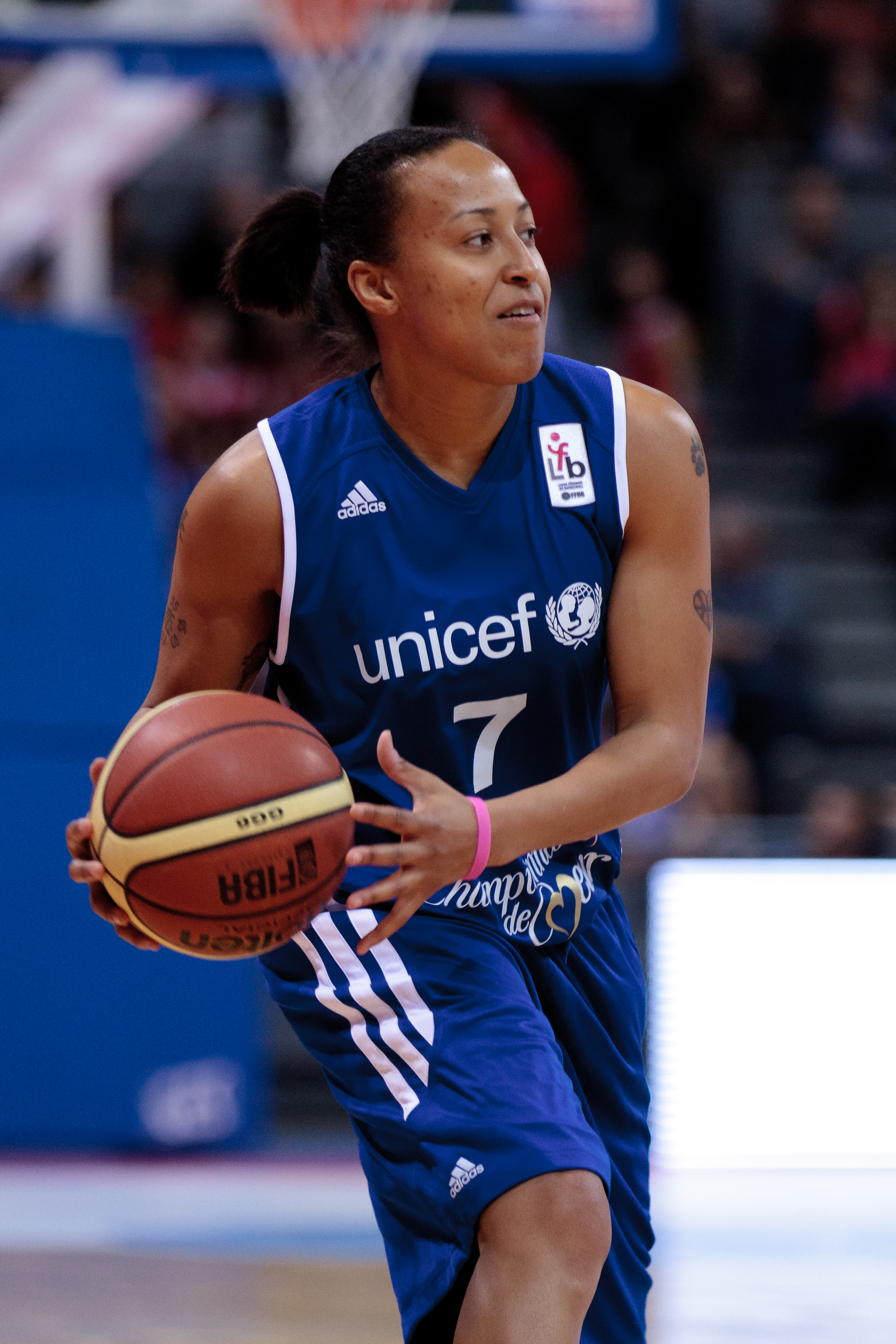 K. B. Sharp, during exhibition game Championnes de cœur in Toulouse.